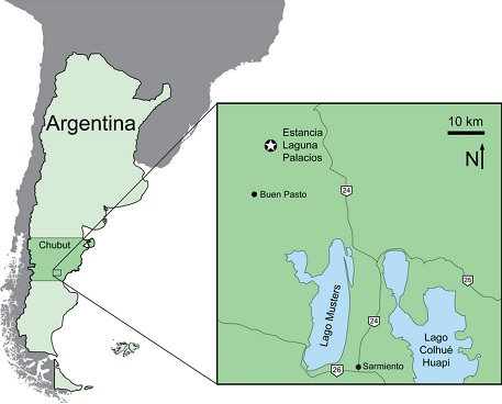 Map of Chubut Province, central Patagonia, Argentina, showing location of the Estancia Laguna Palacios, the type locality of Sarmientosaurus musacchioi gen. et sp. nov. (modified from Ibiricu et al.)